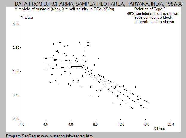 Relation of mustard yield and soil salinity